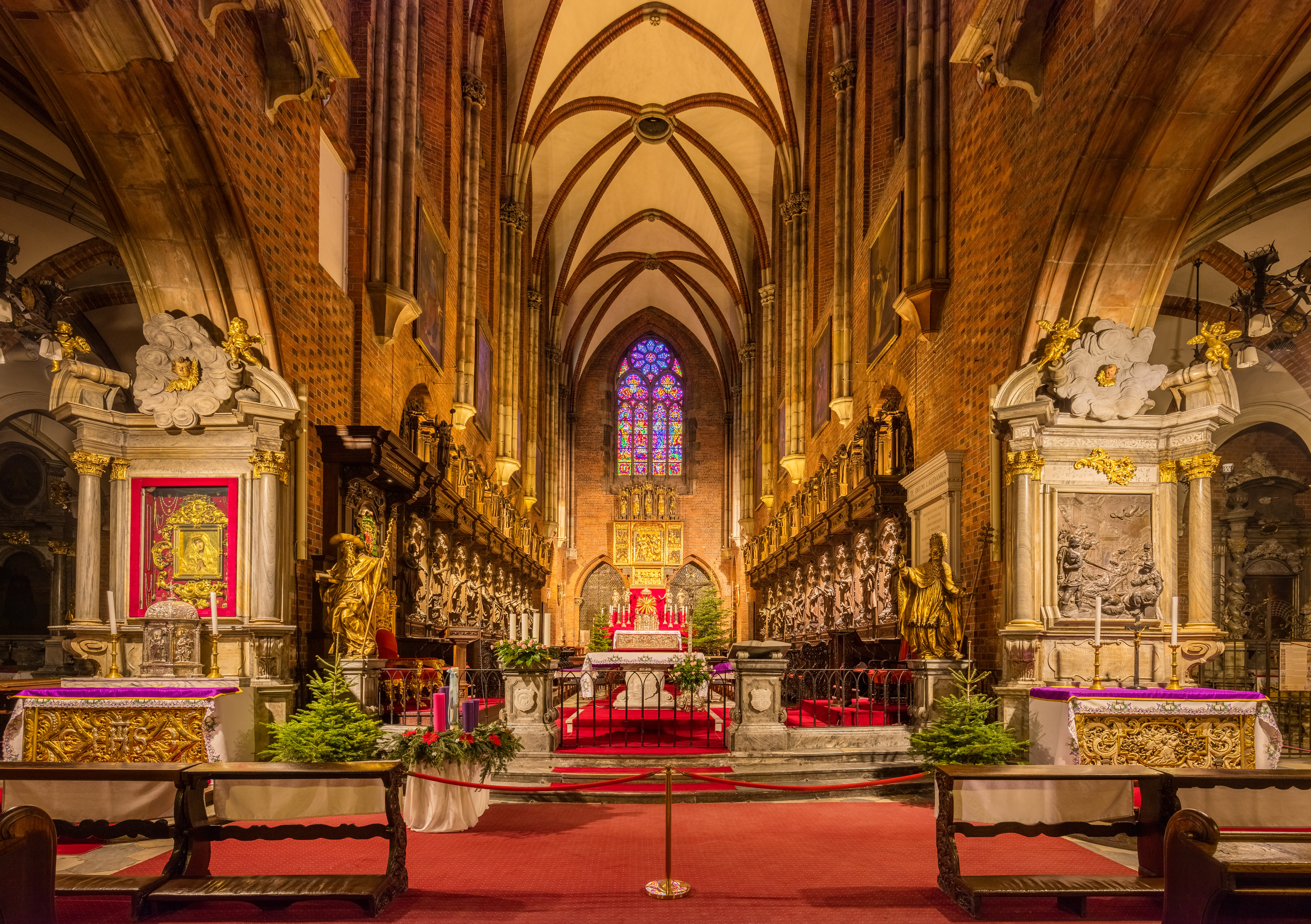 St. John Cathedral Church, Wrocław, Poland